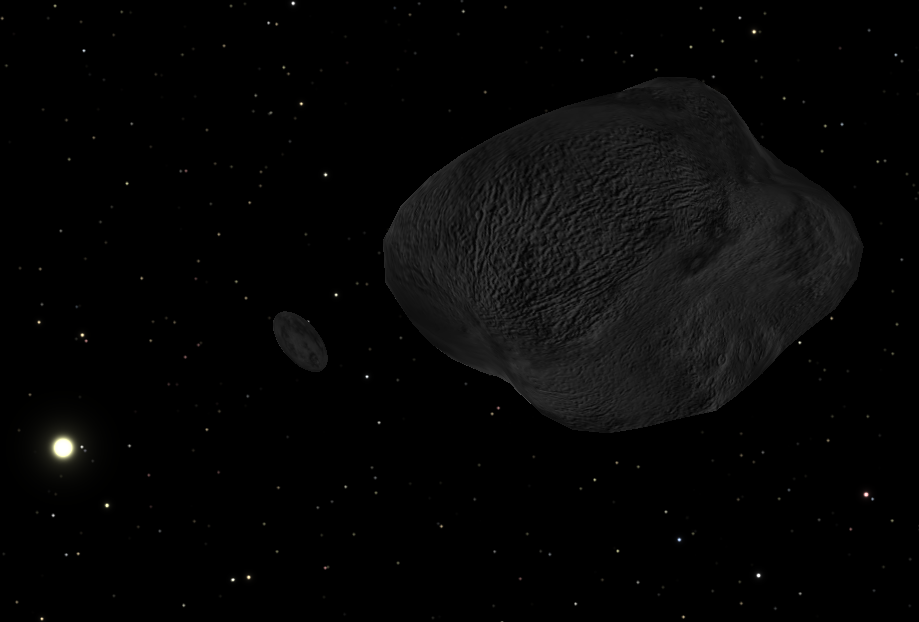 Artistic representation of Namaka, with Haumea and the Sun on the background.